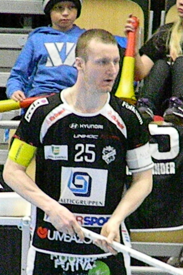 Ketil Kronberg, a floorball player from Sweden